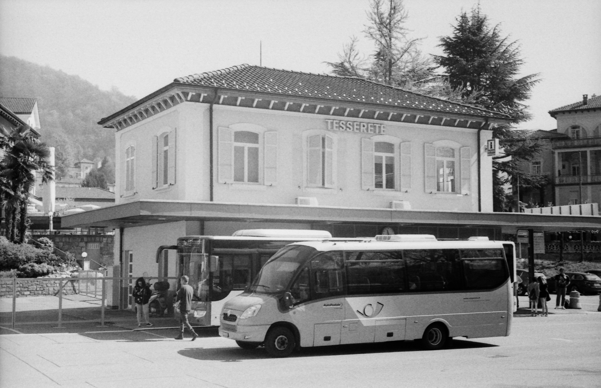 Tesserete former railway station (scan from negative, Ilford HP5 plus 400, Leica IIIc, Summitar 5 cm f/2).